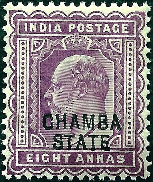 Eight Annas King Edward VII Head (colour purple) overprinted with "CHAMBA STATE" (Typeface 1). (1904) Postage stamp of Chamba state, an Indian Himalayan convention state. Ser No 37 for Chamba in Stanley Gibbons Stamp Catalogue Commonwealth & British Empire Stamps (1840-1970). (2008). London. Ref pp 281-283. Own work. From the collection of Brig A.P. Singh (self). This work created by the United Kingdom Government is in the public domain. This is because it is one of the following: It is a photograph taken prior to 1 June 1957; or It was published prior to 1970; or It is an artistic work other than a photograph or engraving (e.g. a painting) which was created prior to 1970. HMSO has declared that the expiry of Crown Copyrights applies worldwide (ref: HMSO Email Reply)More information. See also Copyright and Crown copyright artistic works.